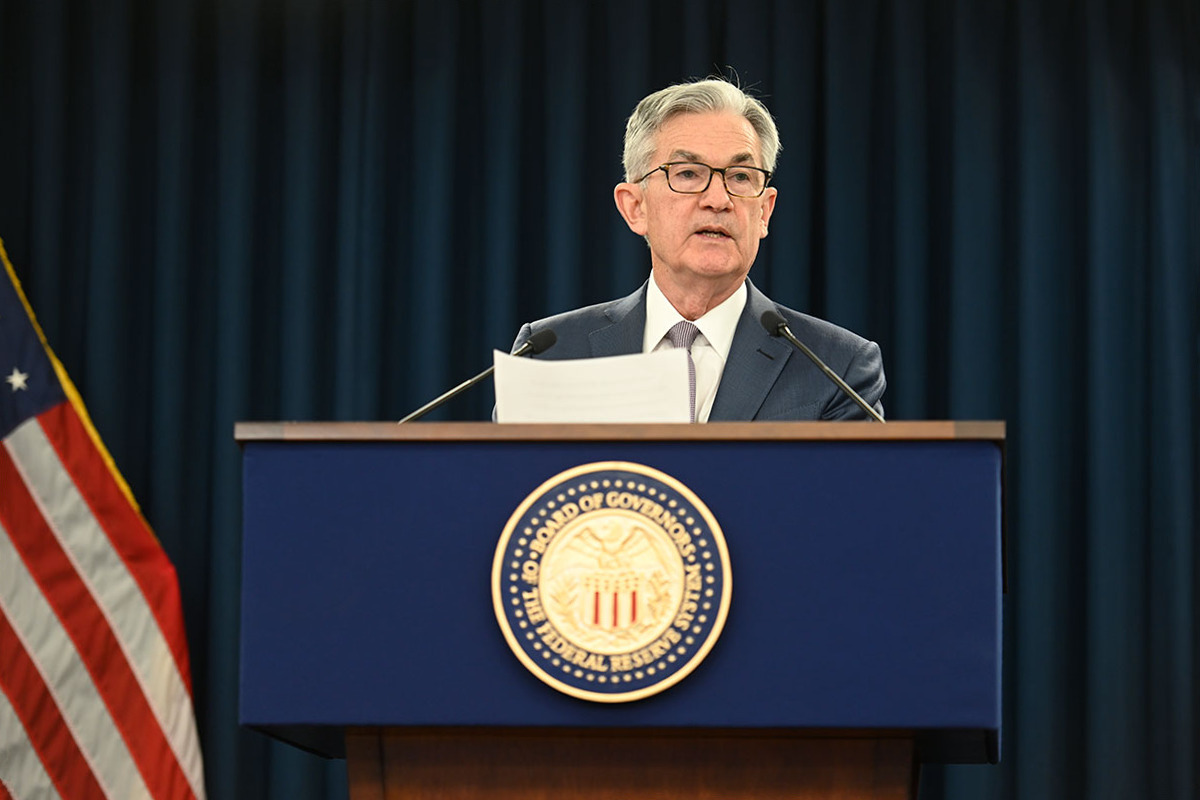 FOMC Chair Powell answers a reporter's question at the March 3, 2020 press conference. FOMC meetings, calendars, statements, and minutes are available here